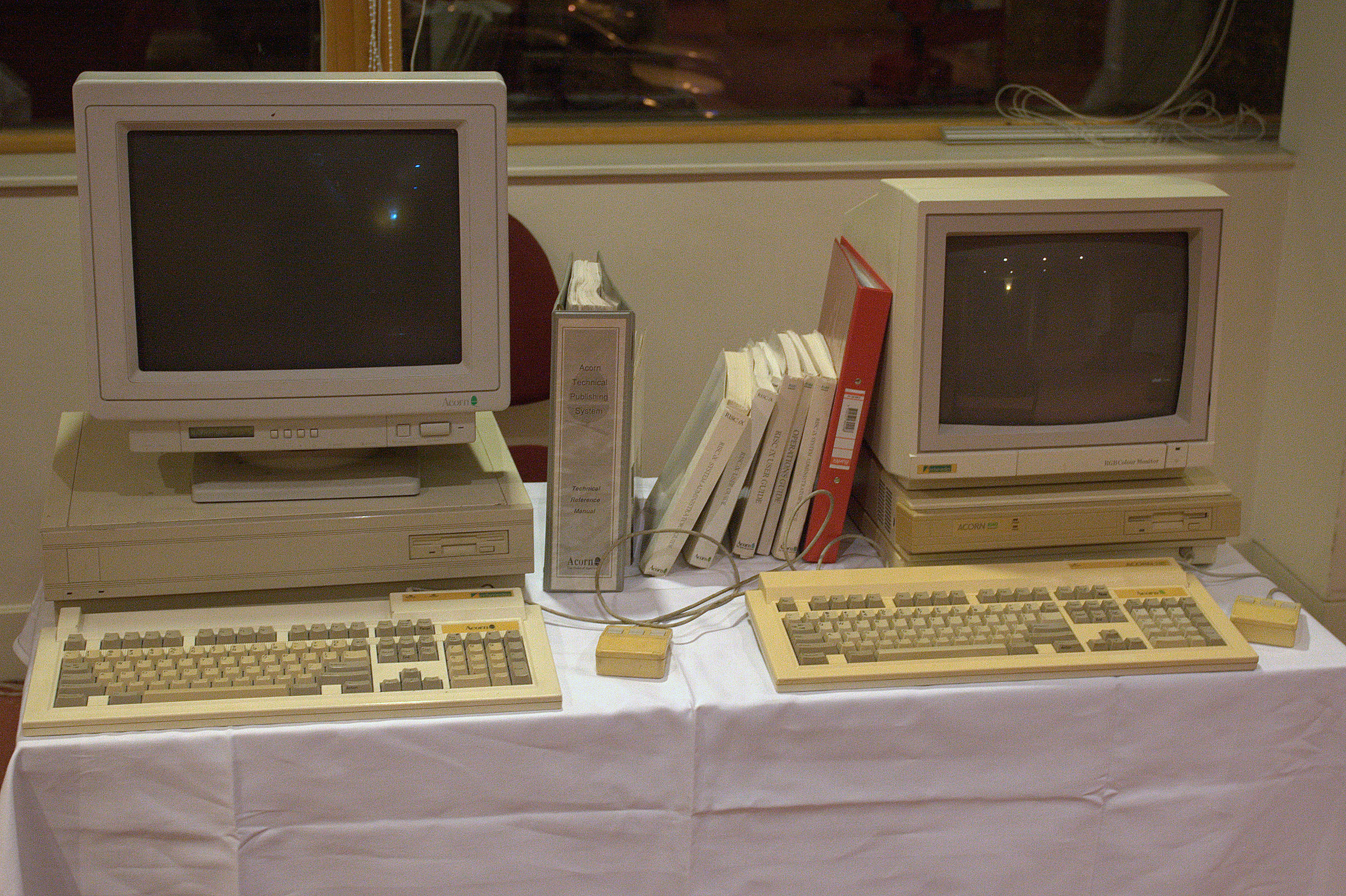 Acorn-A680-R140 workstations.